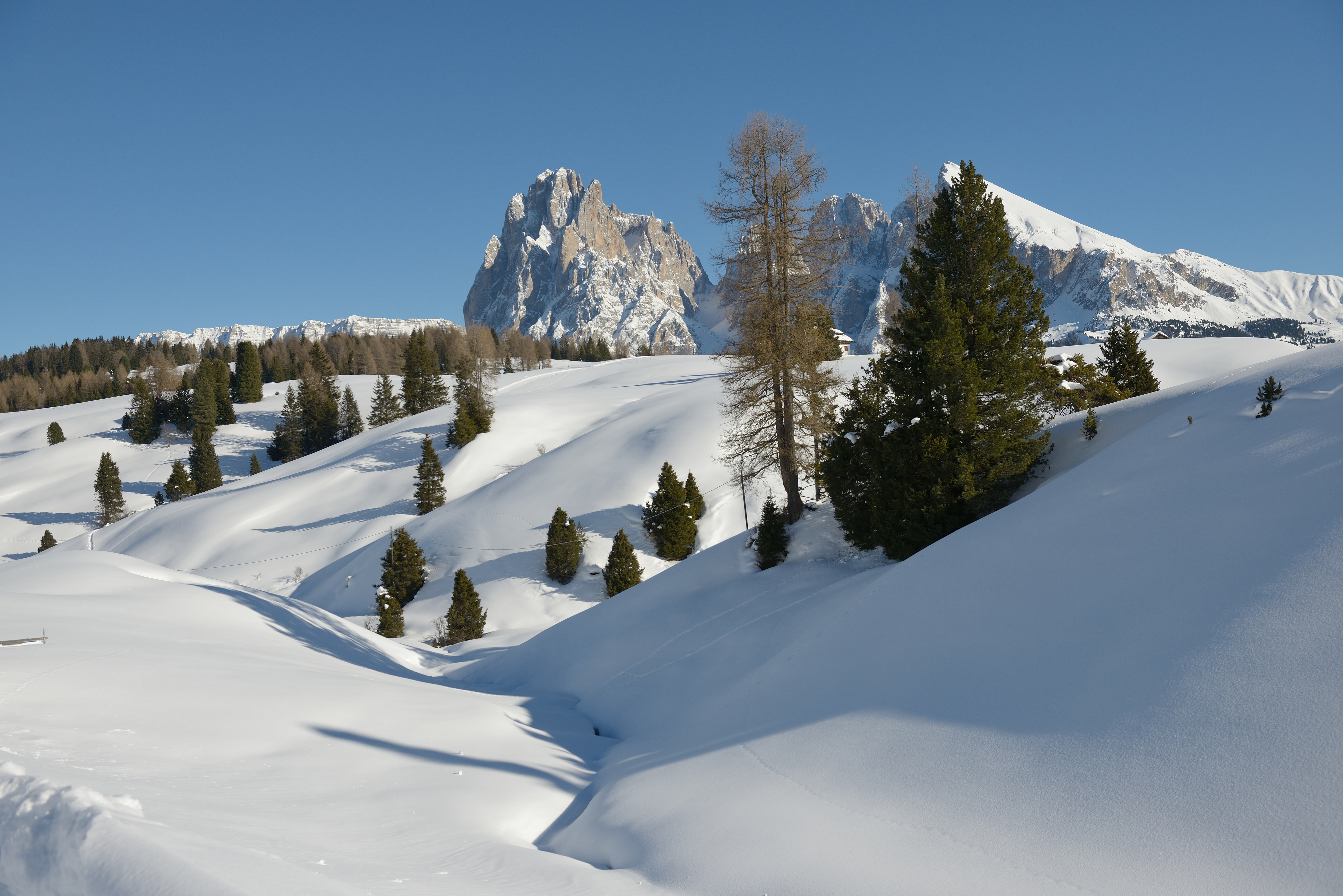 The Seiser Alm in South Tyrol, with the mountains of Langkofel group in the background